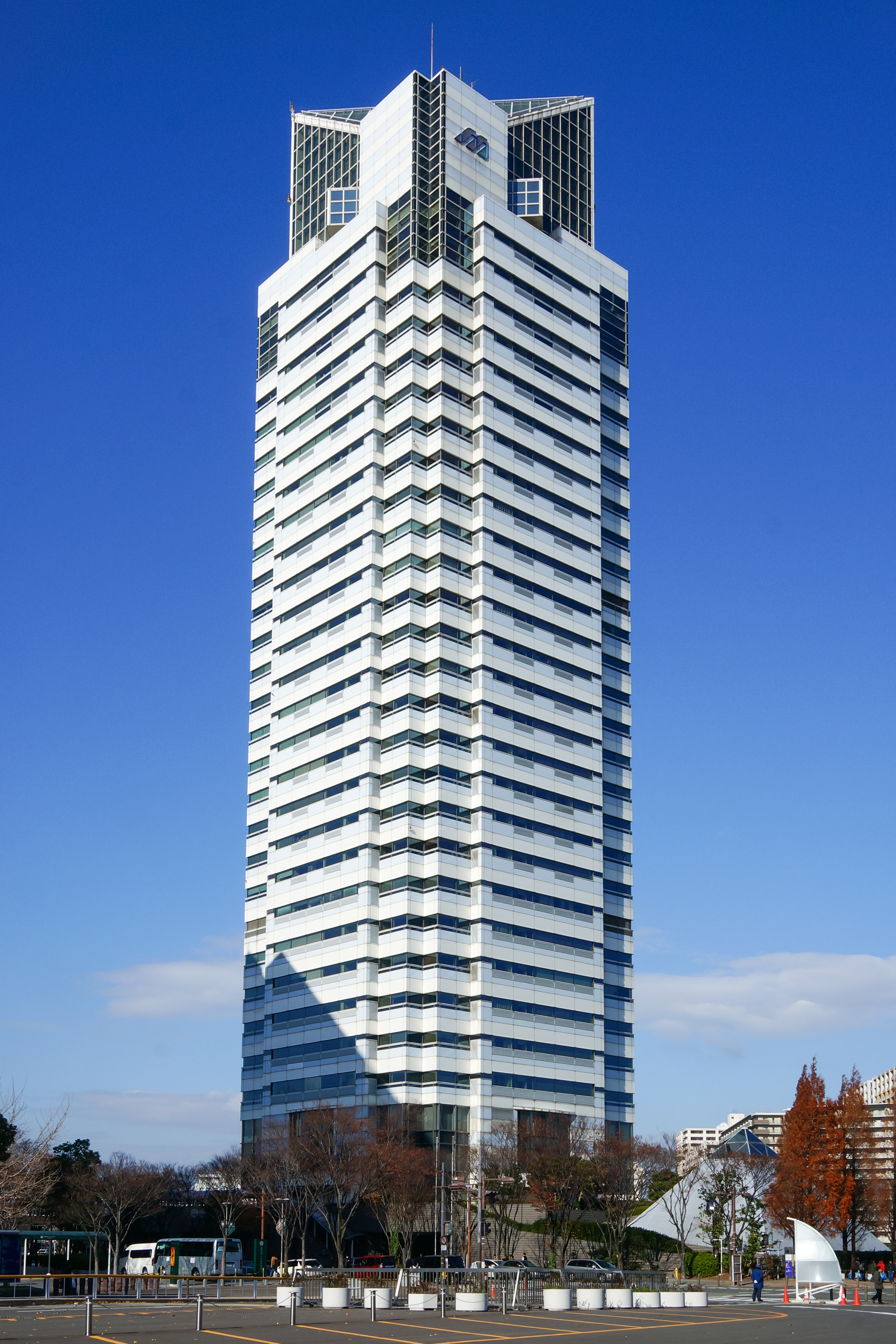 Photograph of the southeast side view of Mizuno Crista, the headquarters of Mizuno Corporation, in Suminoe-ku, Osaka, Osaka Prefecture, Japan.